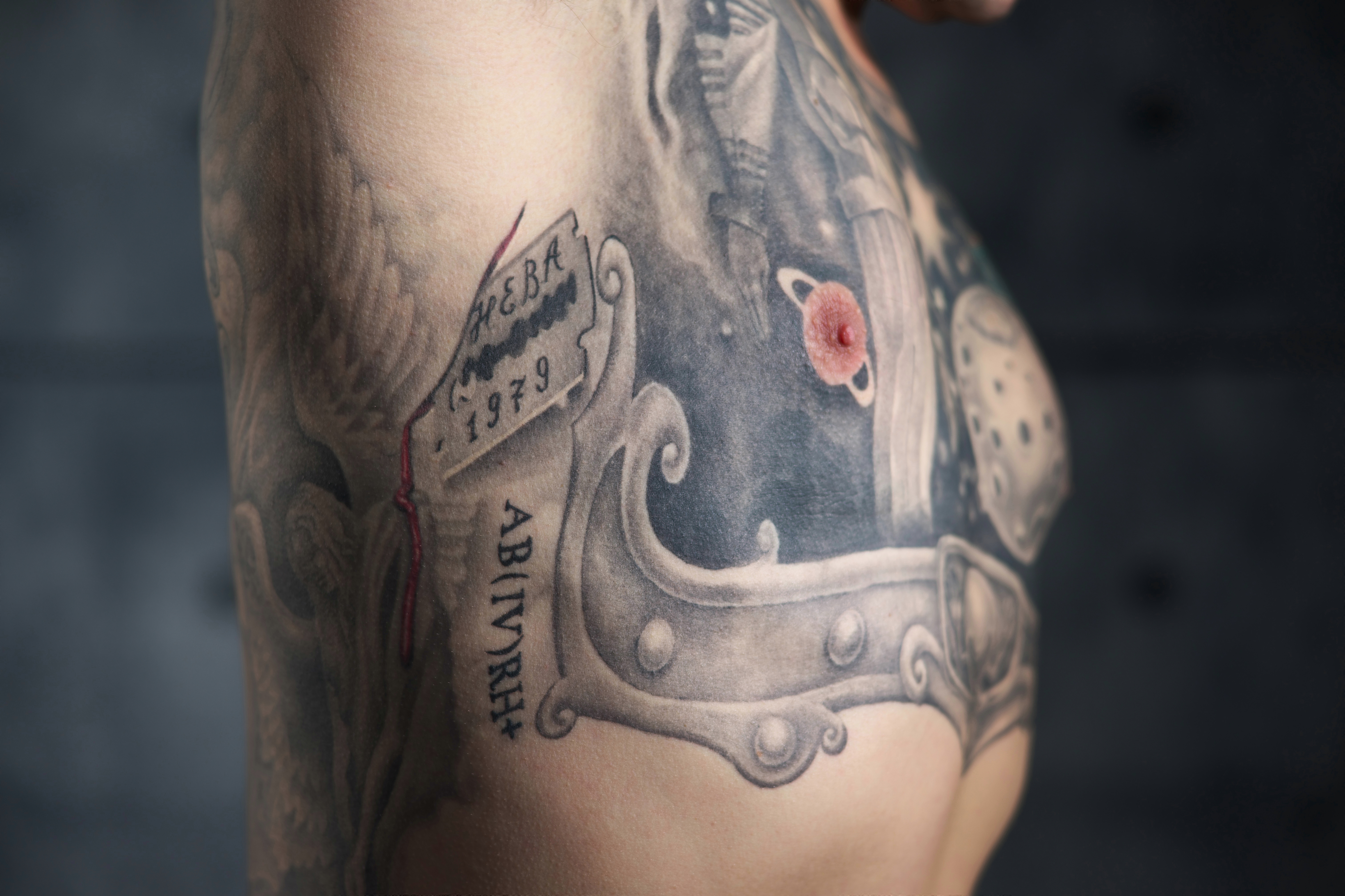 Armpit tattoo. Razor "NEVA" (Soviet brand originated from the city of Leningrad (St. Petersburg)) and blood type written under.